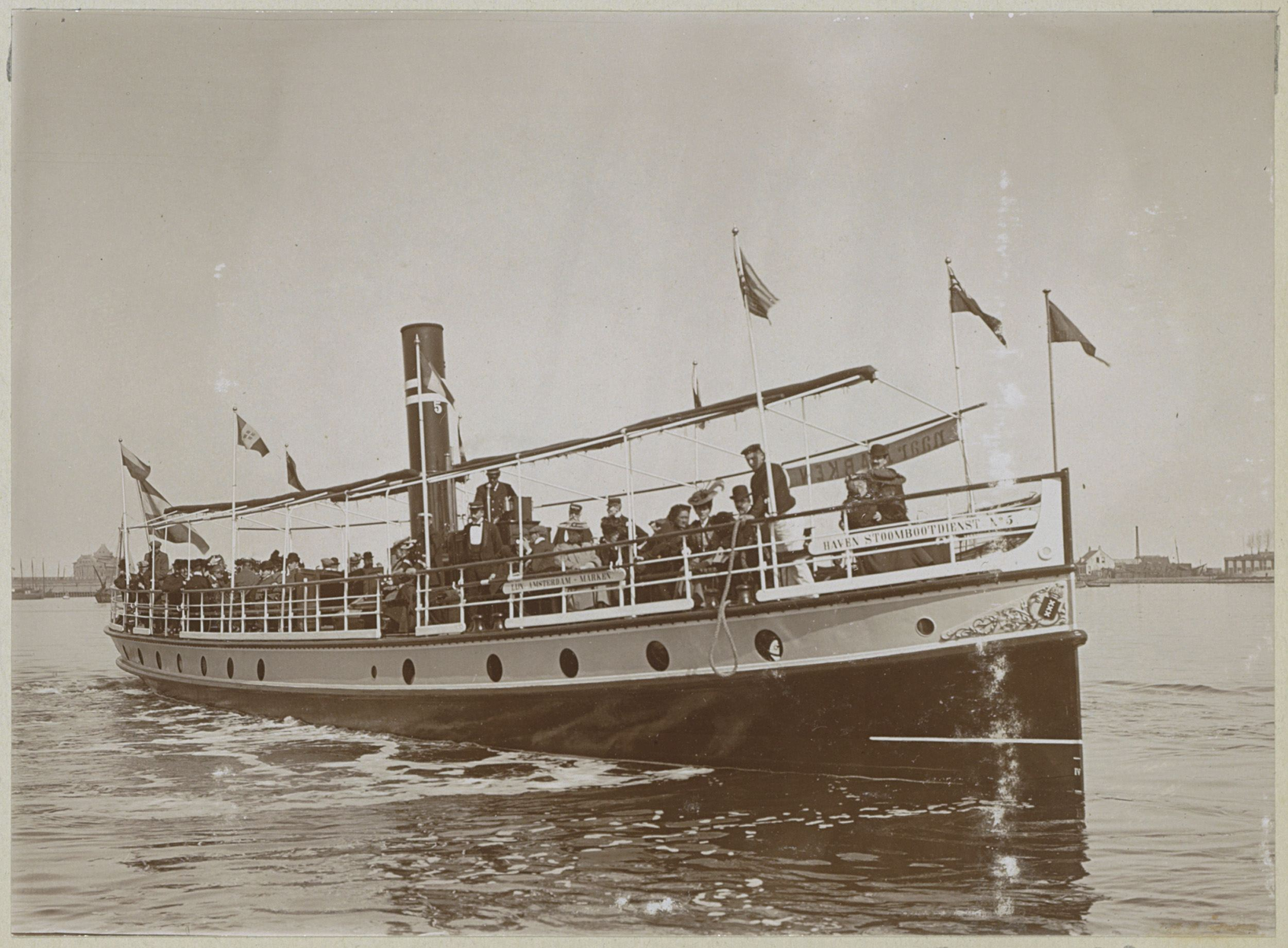 Amsterdam Harbour Steamship Service, boat nr 5